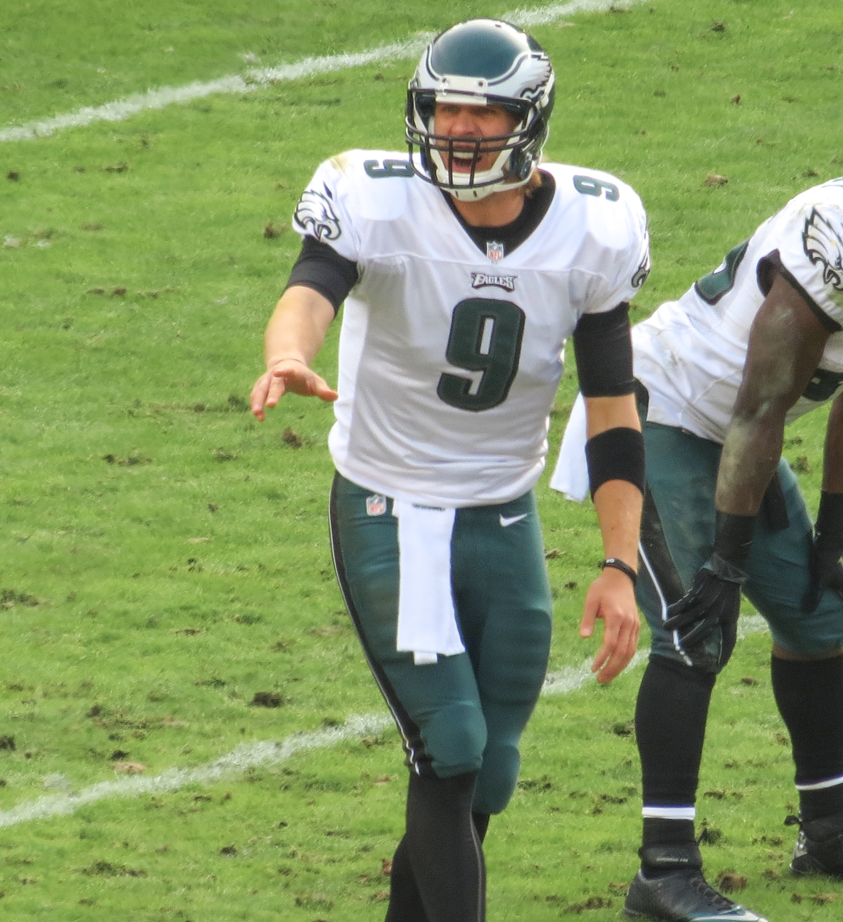 Nick Foles calling a play vs the Redskins Photo of Nick Foles during the Eagles vs Redskins game at Fedex Field on November 18, 2012.